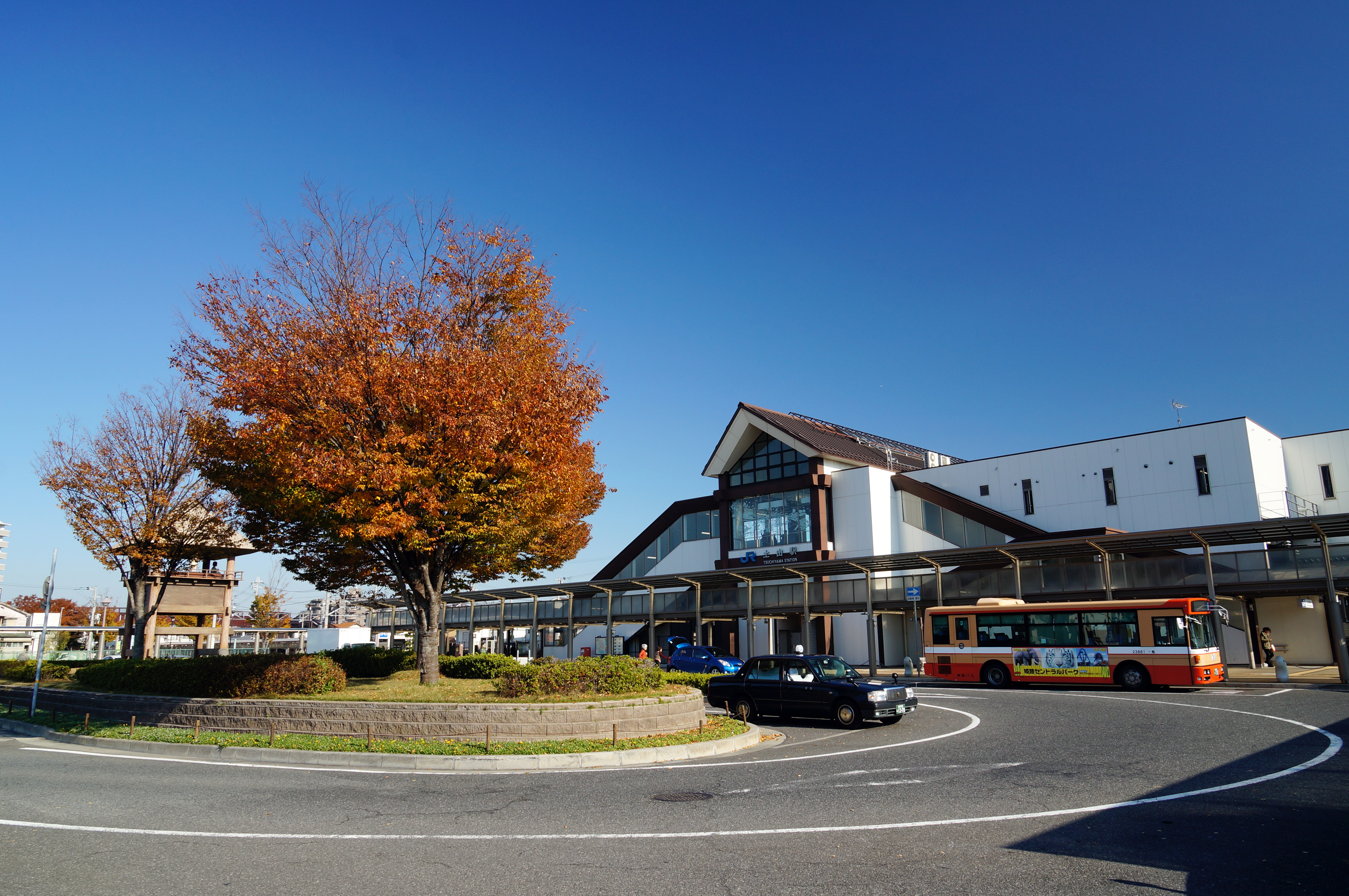 Tsuchiyama Station in Harima, Hyogo prefecture, Japan.